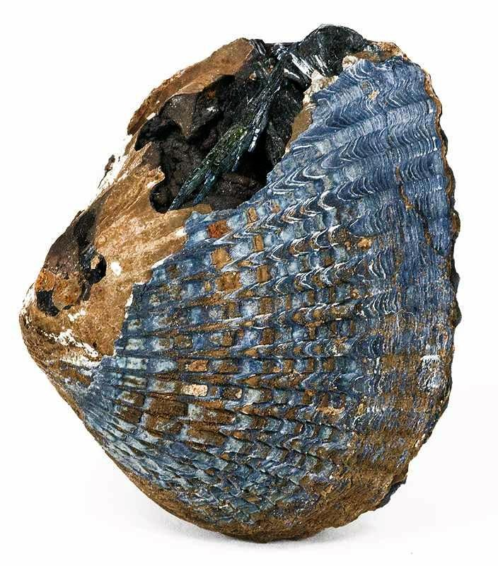 Vivianite Locality: Kerch peninsula (Kertch peninsula), Crimea peninsula, Crimea Oblast', Ukraine (Locality at ) Size: 5.6 x 4.6 x 2.7 cm. This fine specimen features a well-placed vug lined with highly lustrous, dark sea-green vivianite needles to 2.8 cm aesthetically set in a fossilized mollusc shell from the Kerch Peninsula of the Ukraine, near the Black Sea. Both sides of the clam have been partially replaced with blue vivianite. This portion of the deposit is now mined through and gone. The calcium and phosphate needed to form this species are both derived from the original shell material.